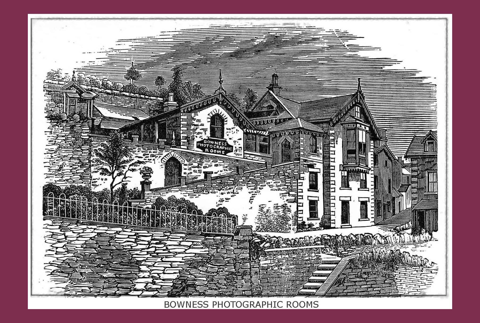 engraving used on the reverse of his photographs. Copied from the illustration used by Poet Close in his 1880 pamphlet and given a frame.